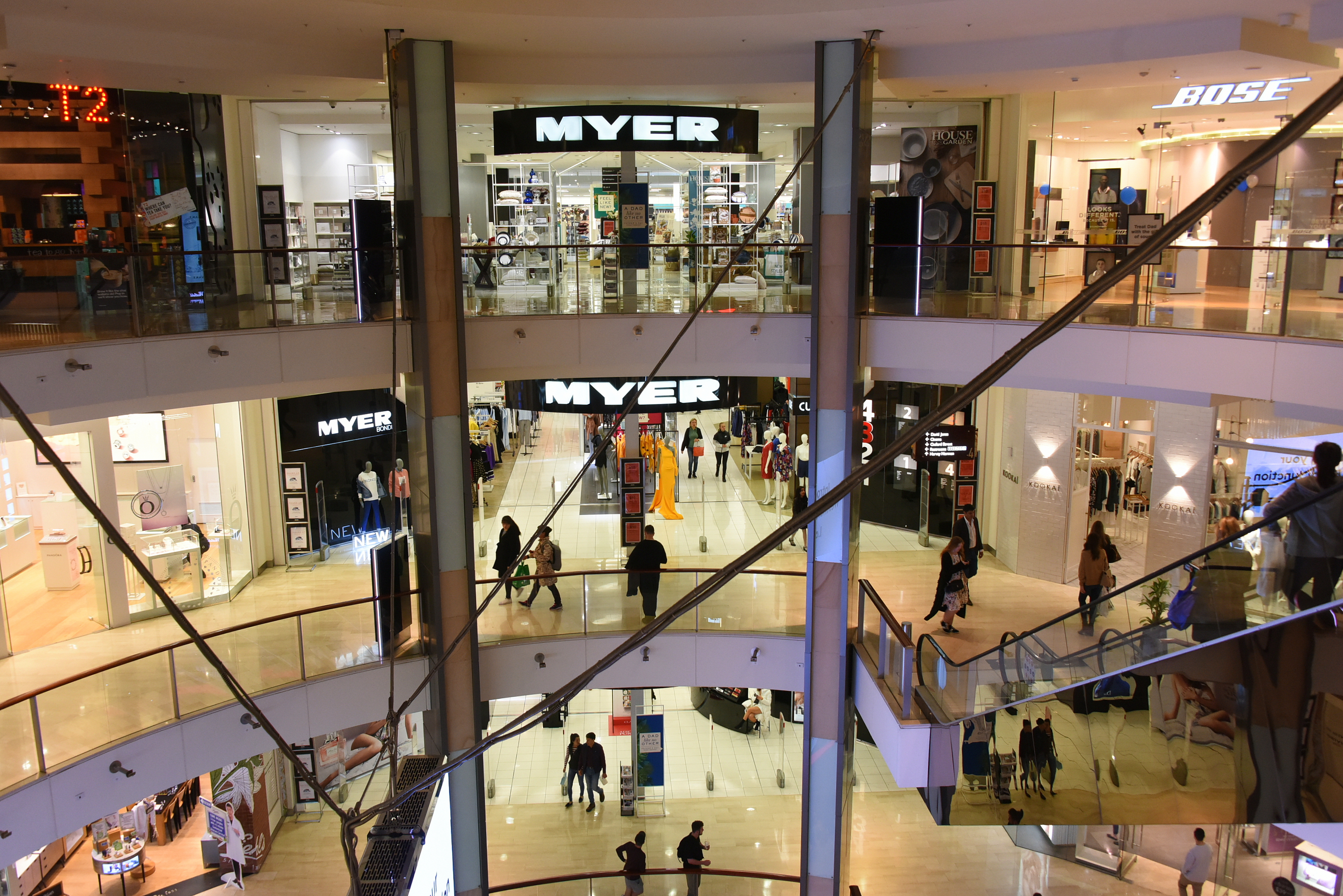 Myer department store, Bondi Junction, Sydney